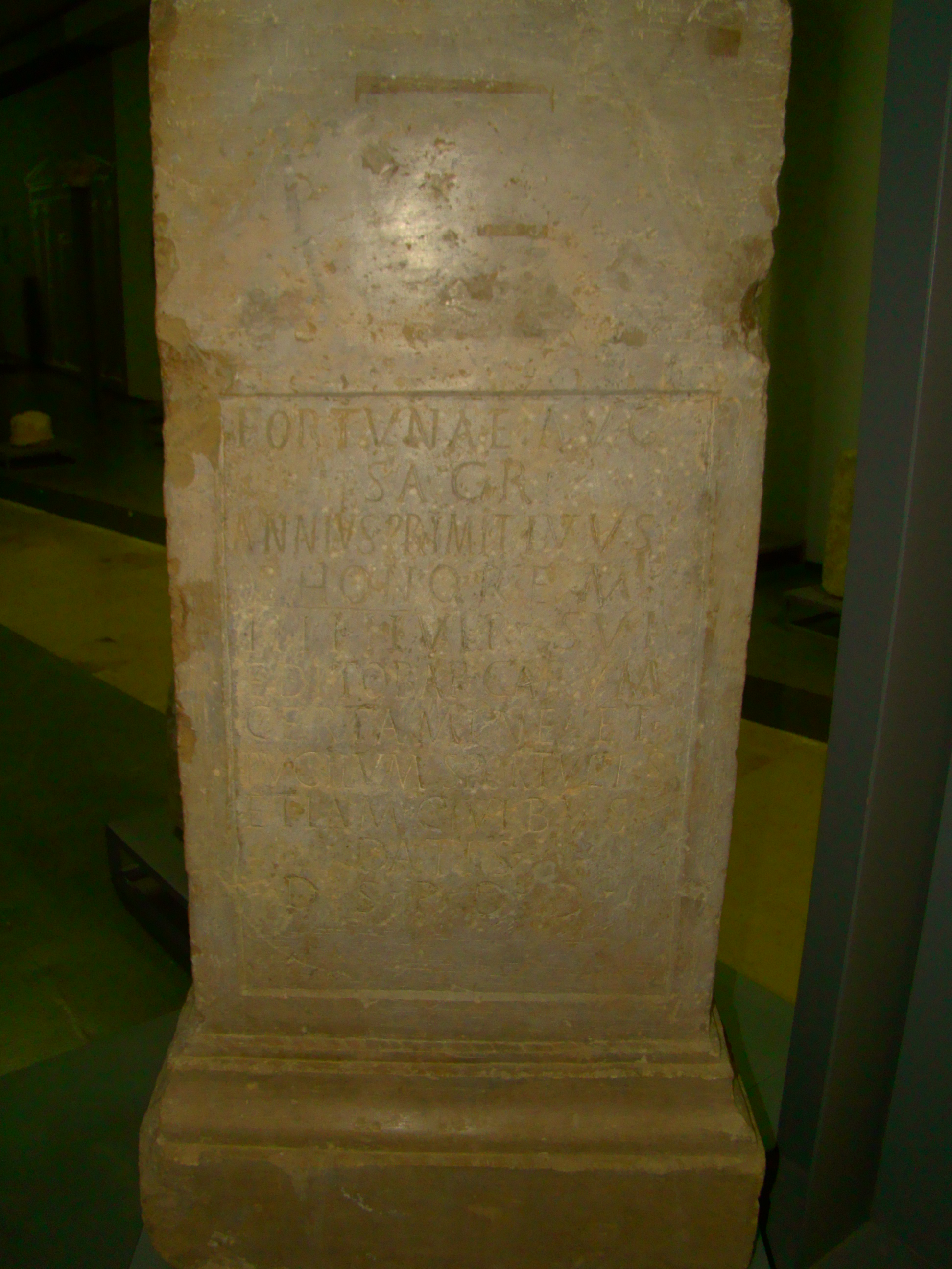 Funerary cippus from the ancient city of Balsa, that was found in the Nossa Senhora da Luz Church, in Tavira, Portugal. It was later placed on the Faro Museu, where the photograph was taken.